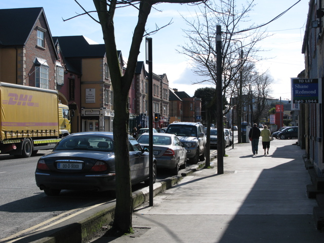 North Street, Swords, Co. Dublin The Council Offices are at the bottom of this street.